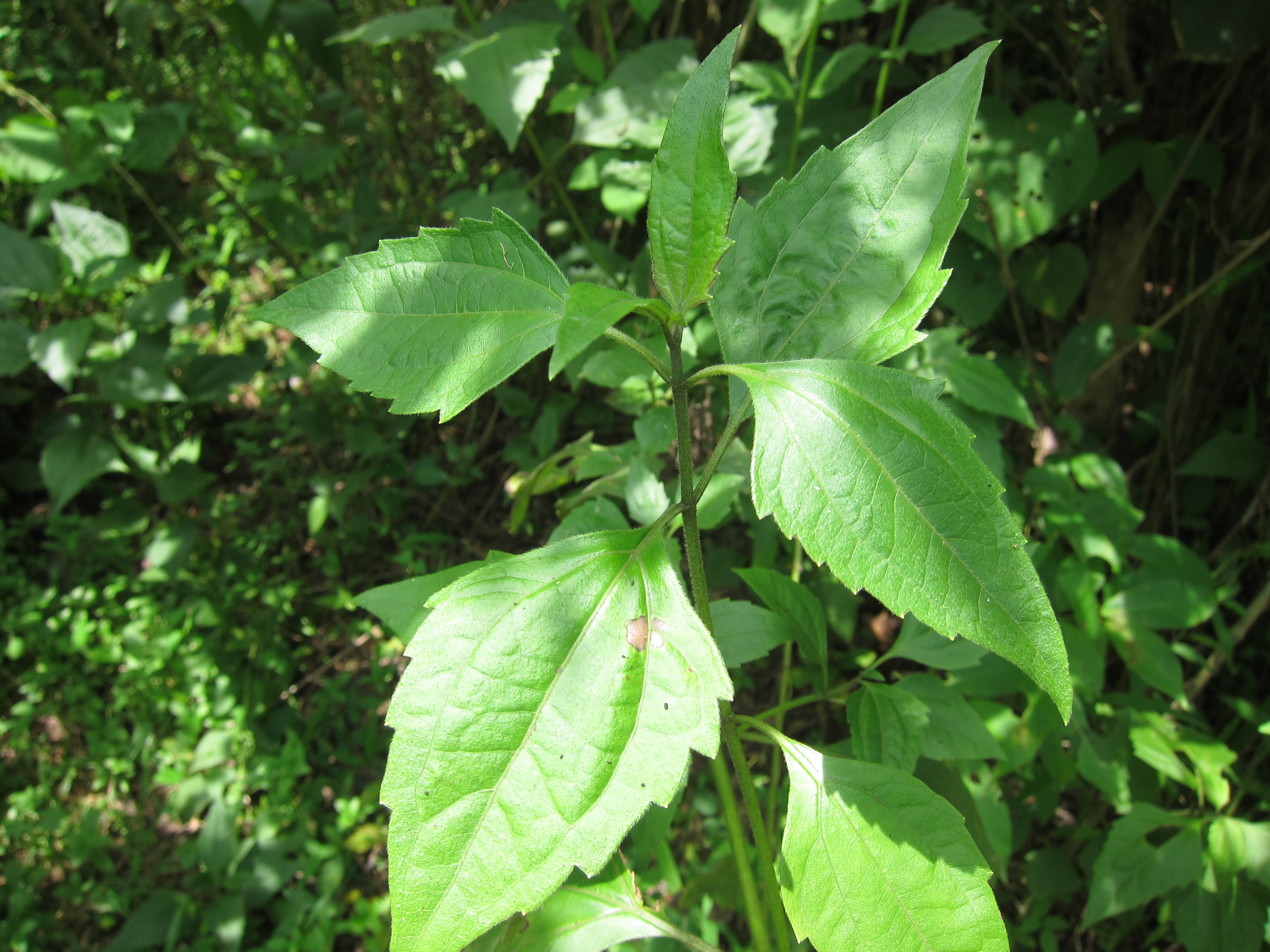 Common Floss Flower